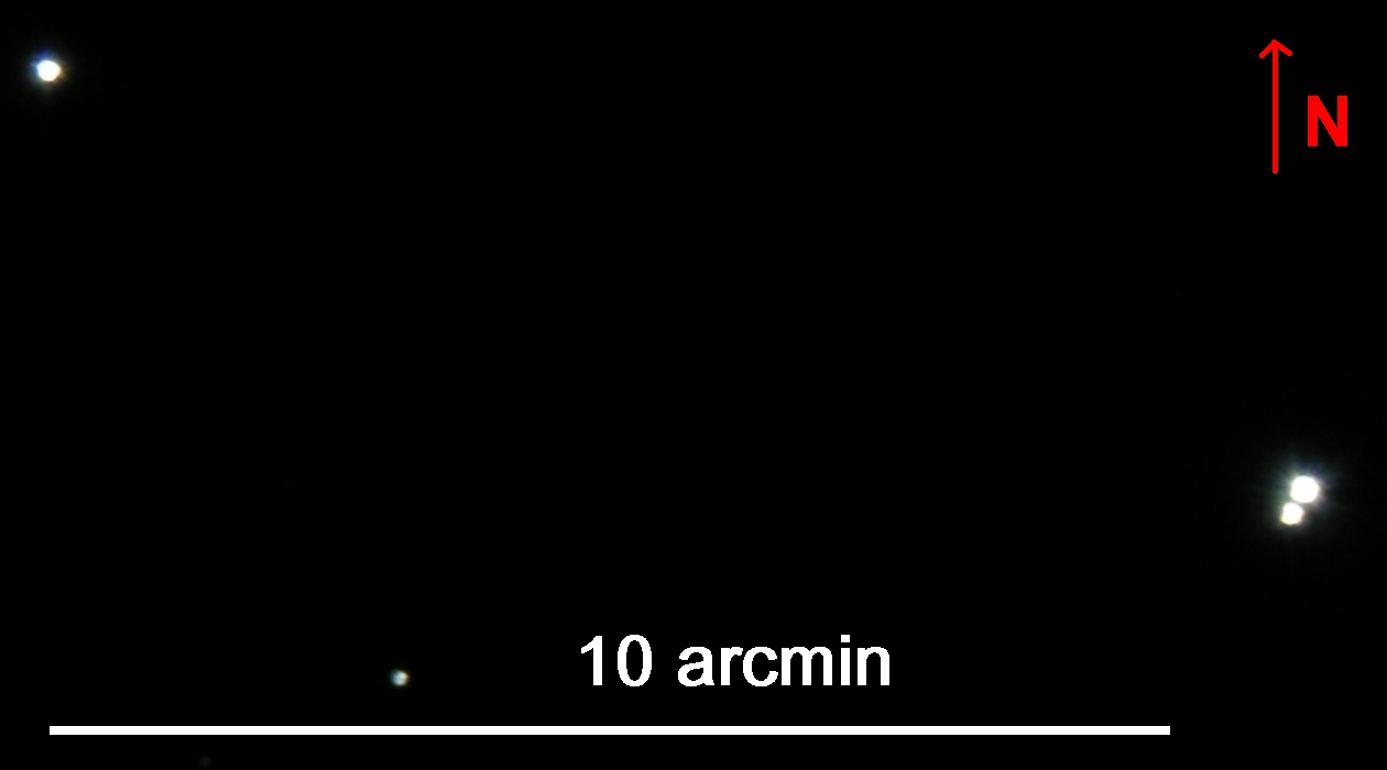 Mizar A and B (right) and Alcor (left)